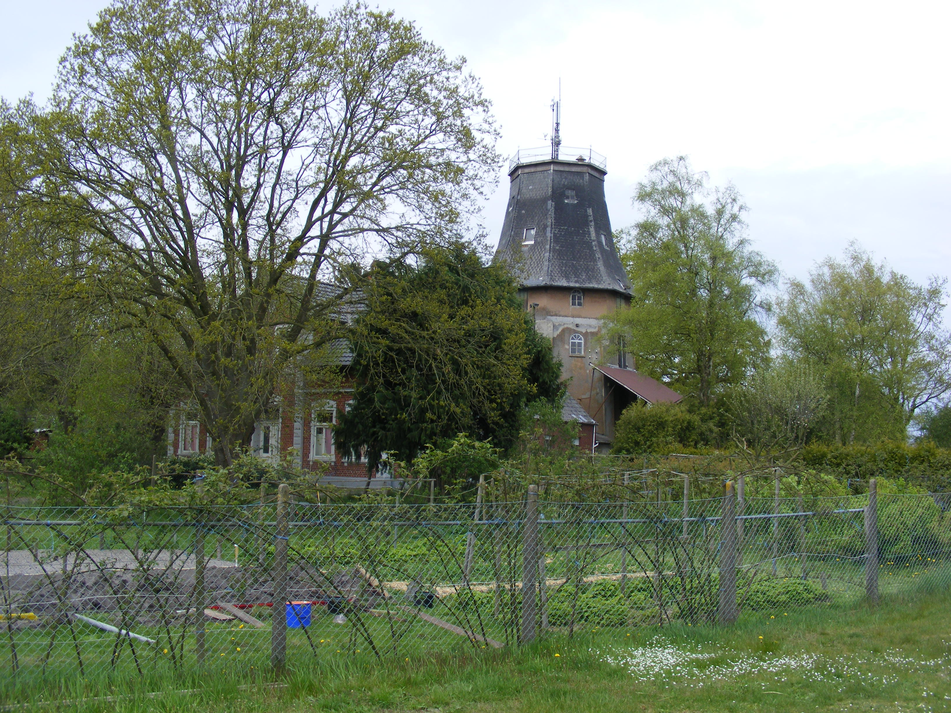 Windmill tower in Frankenburg, a location of the municipality of Lilienthal